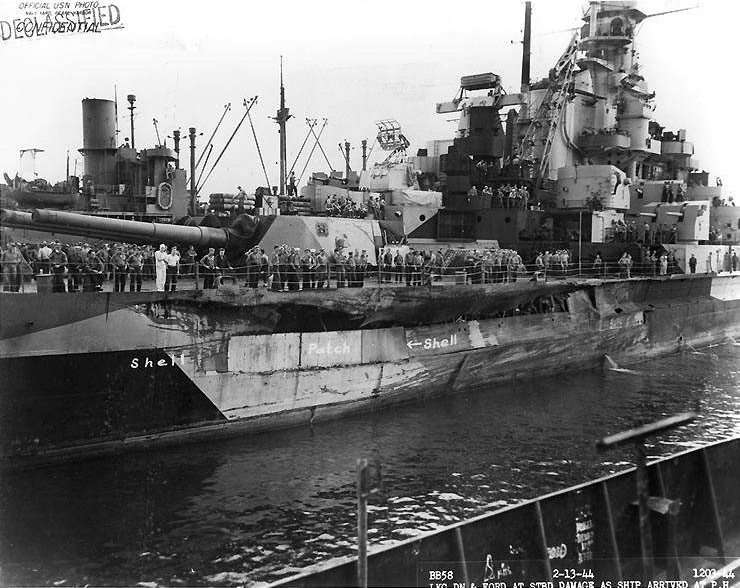 USS Indiana (BB-58) at Pearl Harbor on 13 February 1944, showing damage to her starboard side received in collision with USS Washington (BB-56) on 1 February 1944.